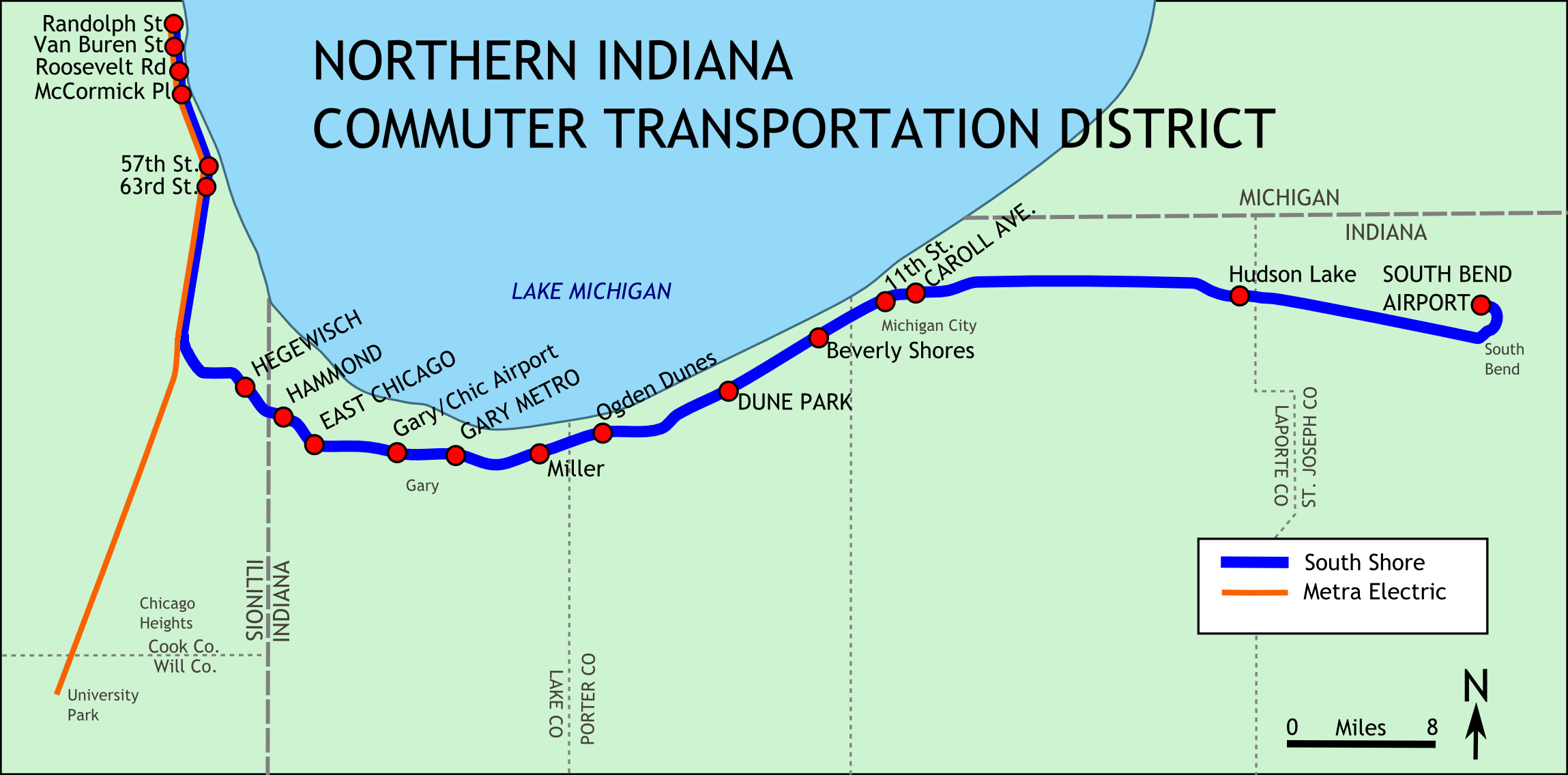 South Shore Line map, made by me, based on the one from the official website.